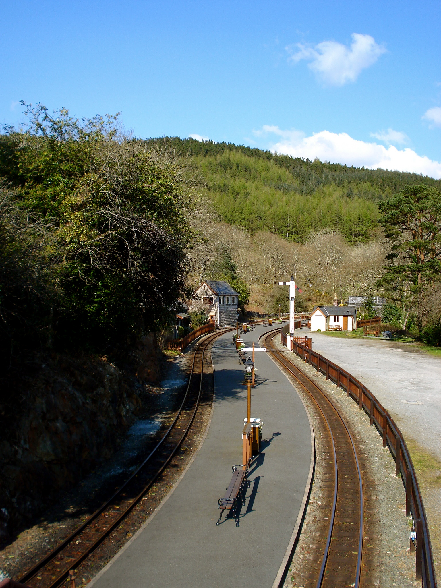 A sunny day at Ffestiniog Railway station Tan-y-Bwlch.